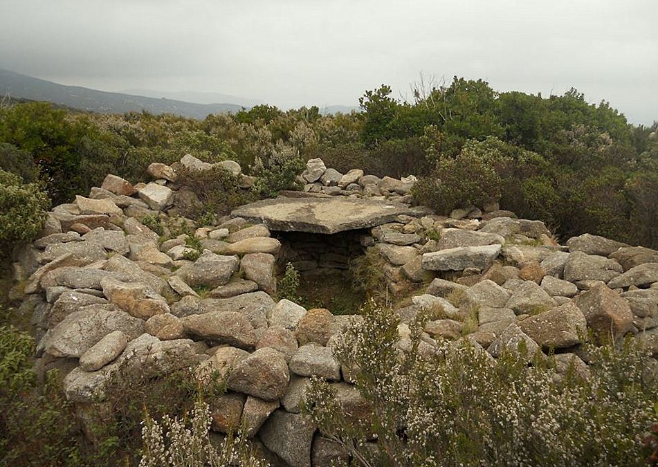 Elba island